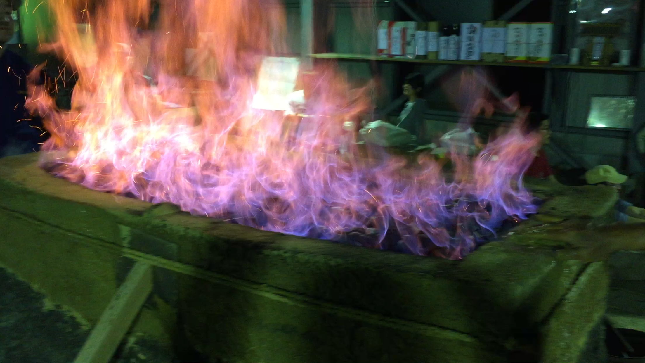 Charcoal is added to a Japanese clay furnace until a temperature over 1500 degrees F is achieved. Niimi Tatara Festival, Niimi Okayama, Japan.